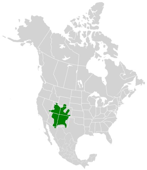 A range map showing the distribution of the Colorado Hairstreak (Hypaurotis crysalus).